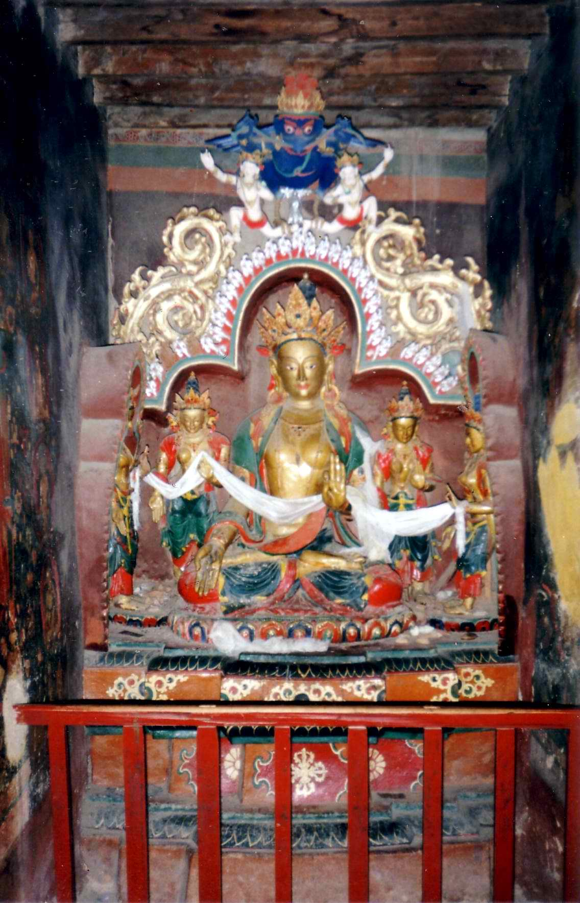 I took this photo myself in Gyantse Kumbum in 1993. (I am adding my "signature" late as I forgot to do it when I first uploaded the image) John Hill 04:59, 22 September 2007 (UTC)